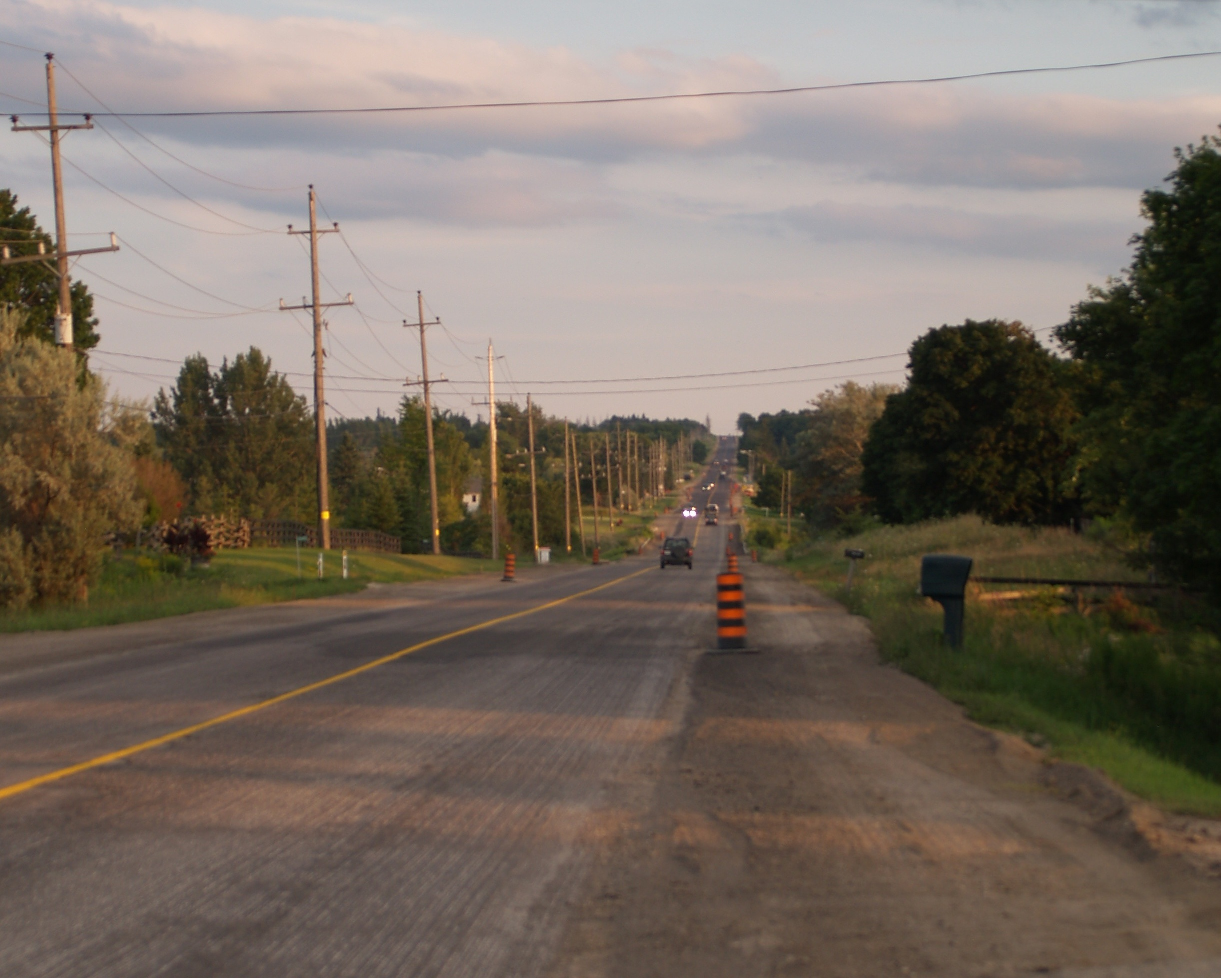 Highway 27 near Schomberg, Ontario, south of Highway 9, facing towards Toronto